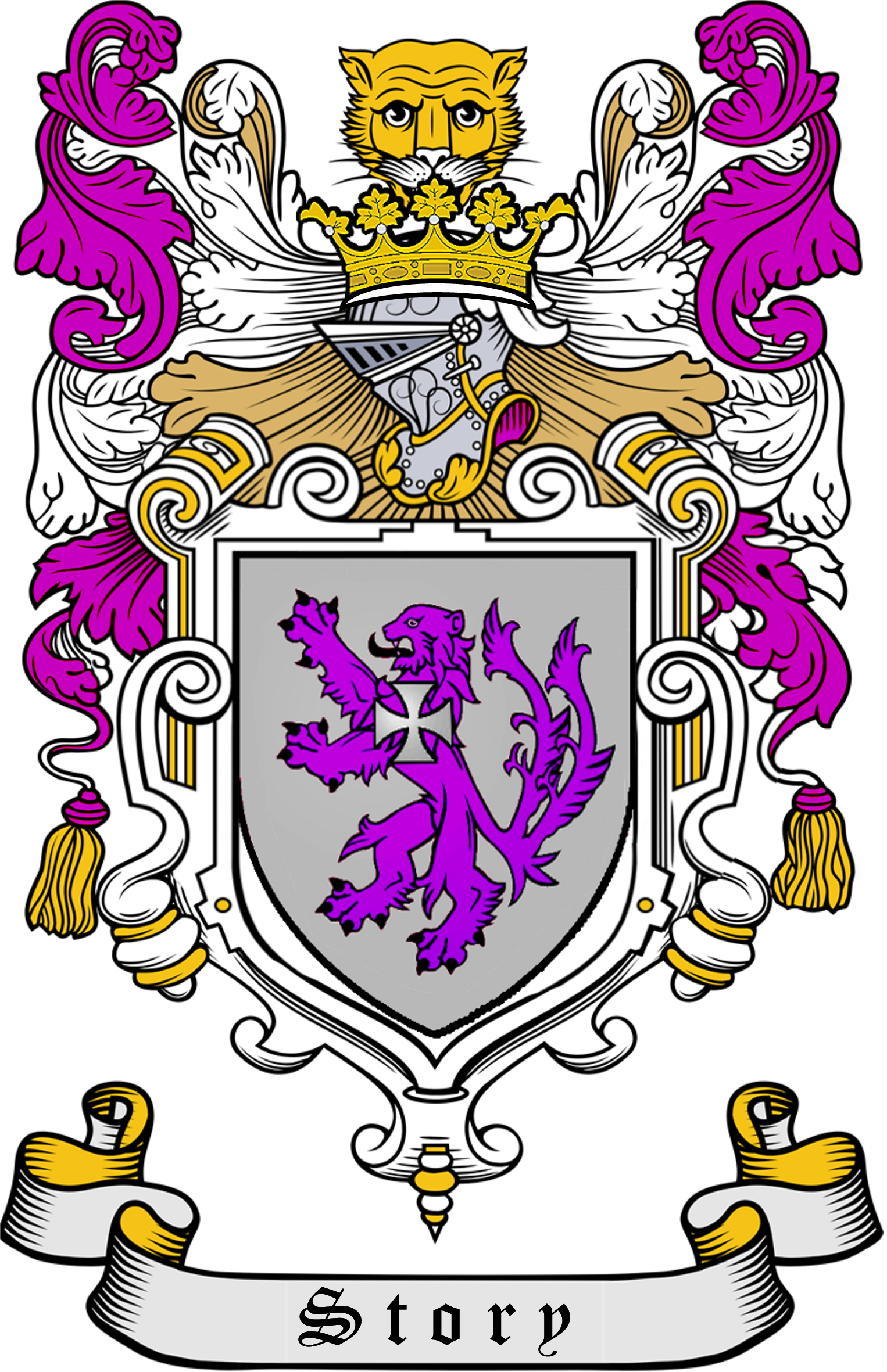 Story Family Coat of Arms